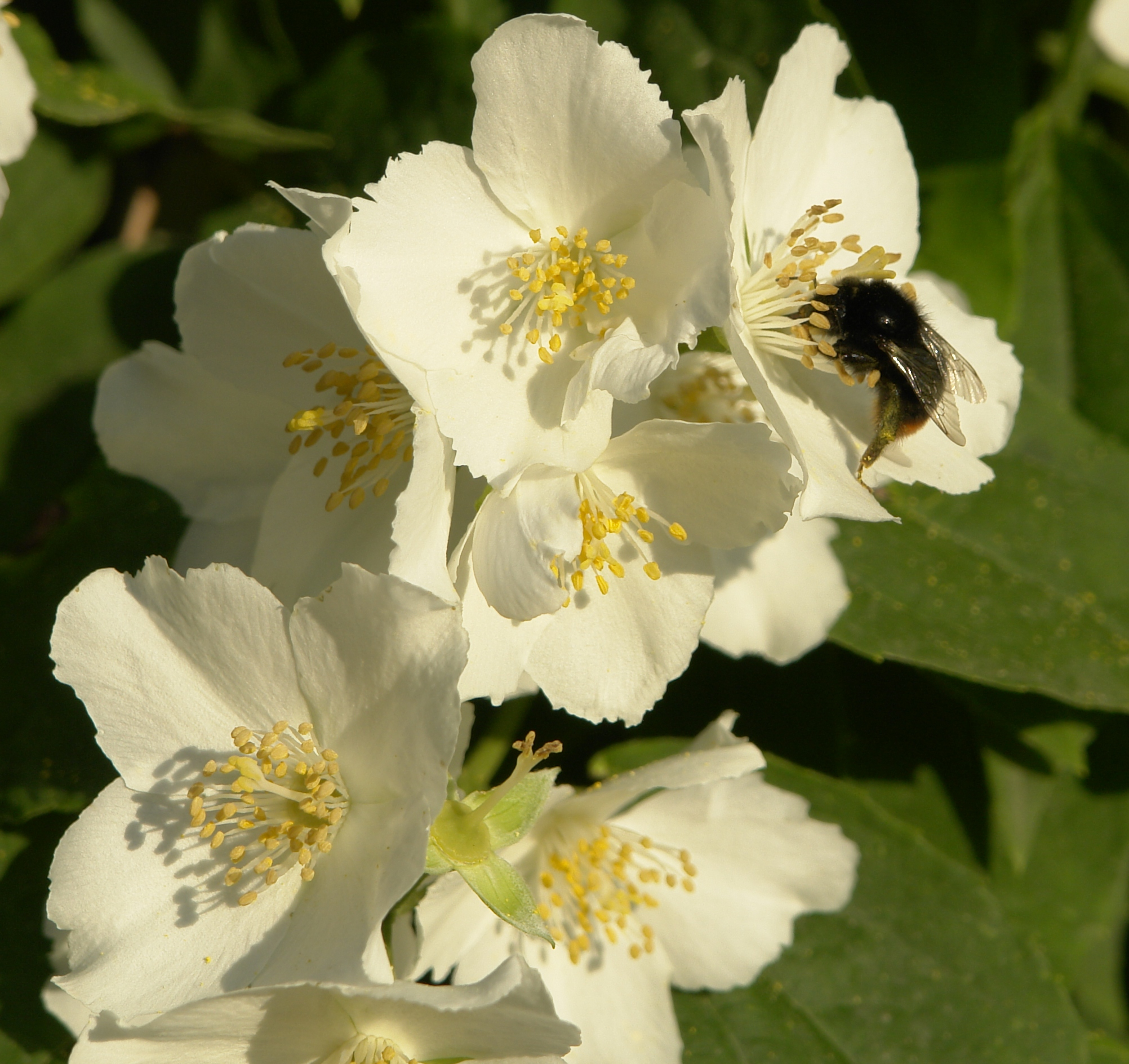 Bumblebees (Bombus lapidarius) on Philadelphus coronarius.